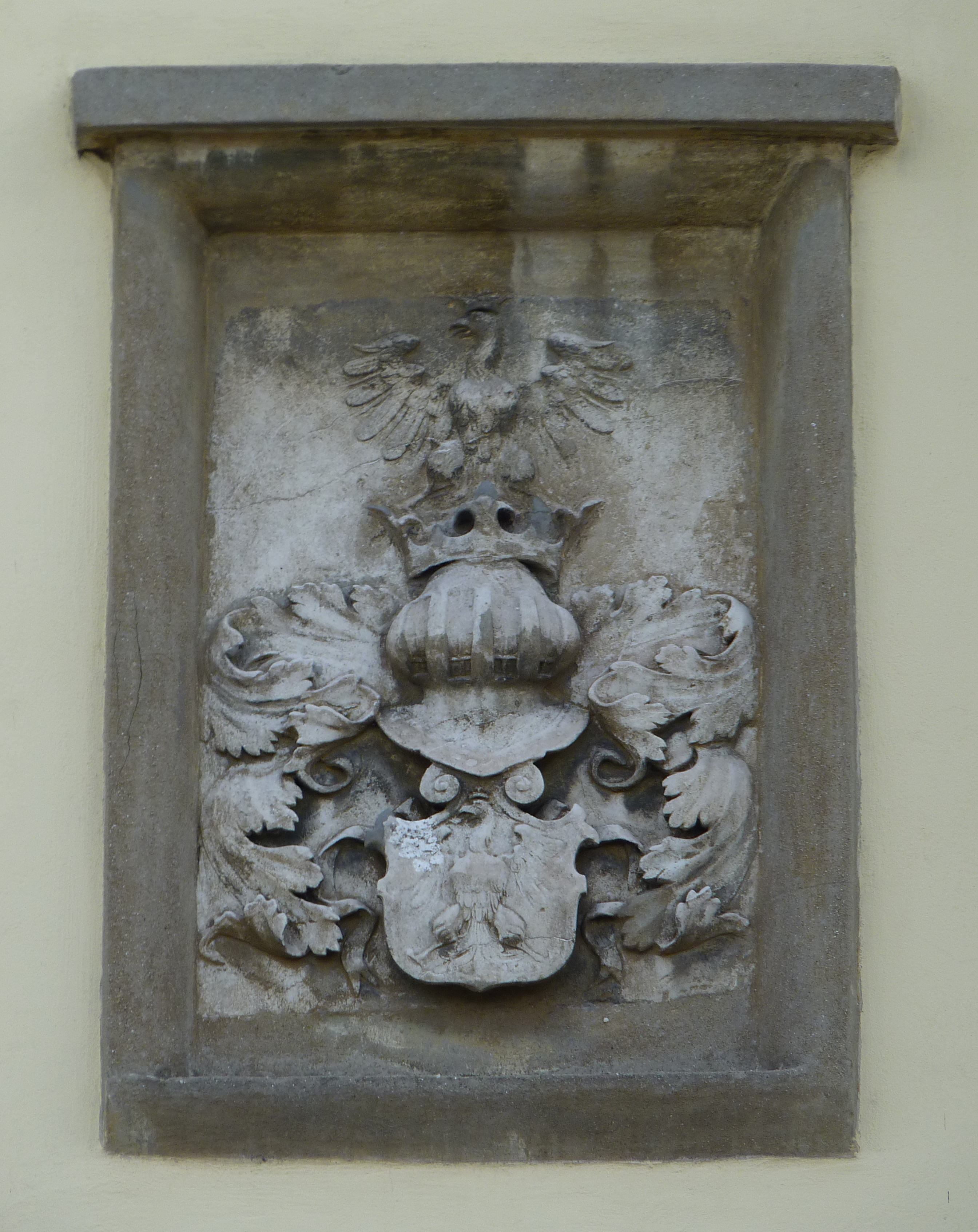 Town Hall in Fryštát. Karviná, Karviná District, Moravian-Silesian Region, Czech Republic. COat of arms of Frederick I. Casimir, duke of Teschen (†1571).